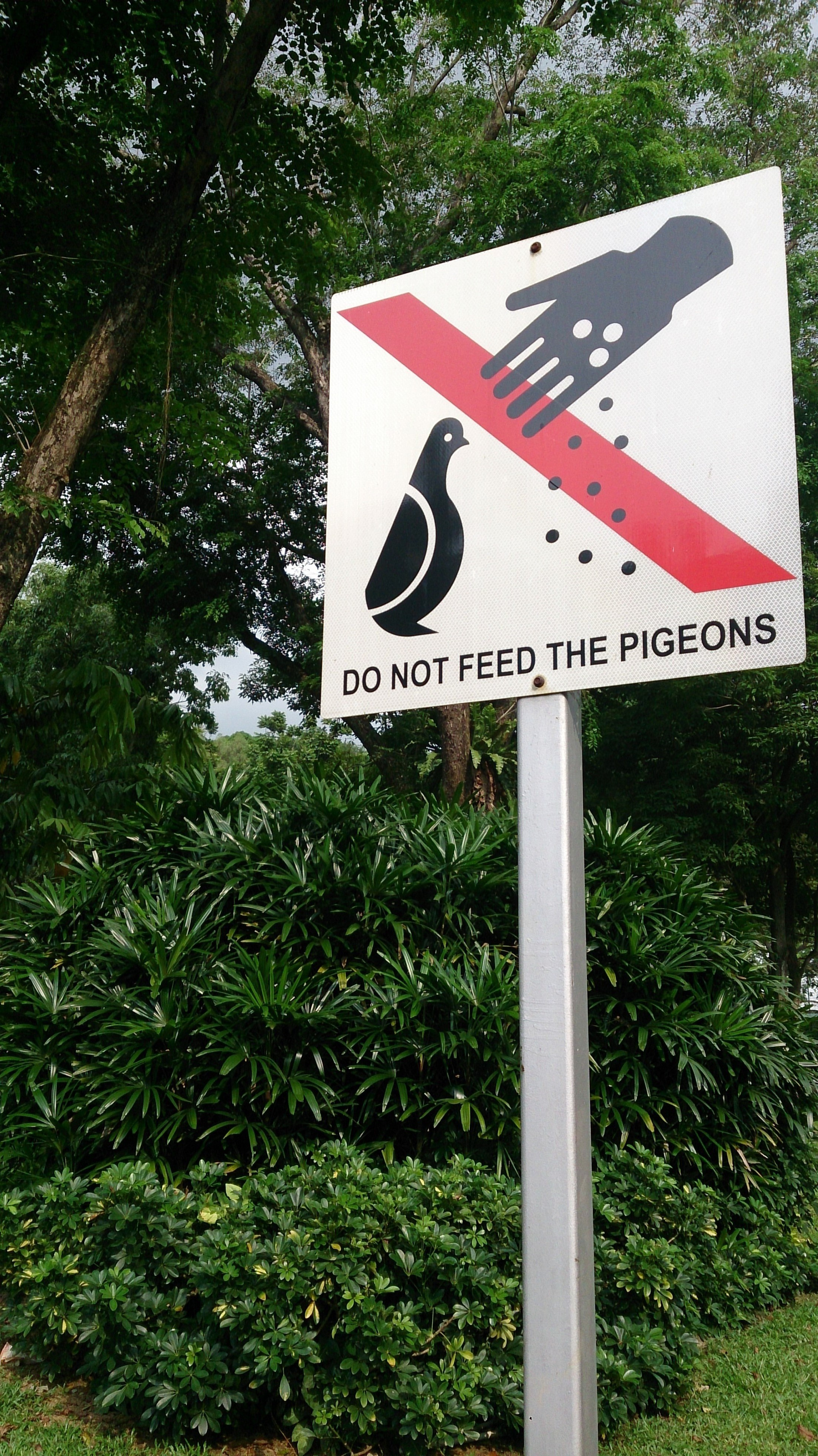 Do not sign. Pigeon droppings can transmit pathogenic stuff ;)